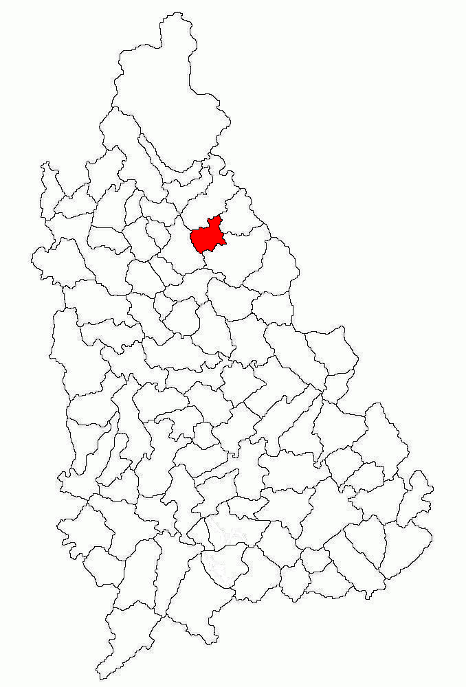 Locator map of Vârfuri Commune in Dâmbovița County, Romania